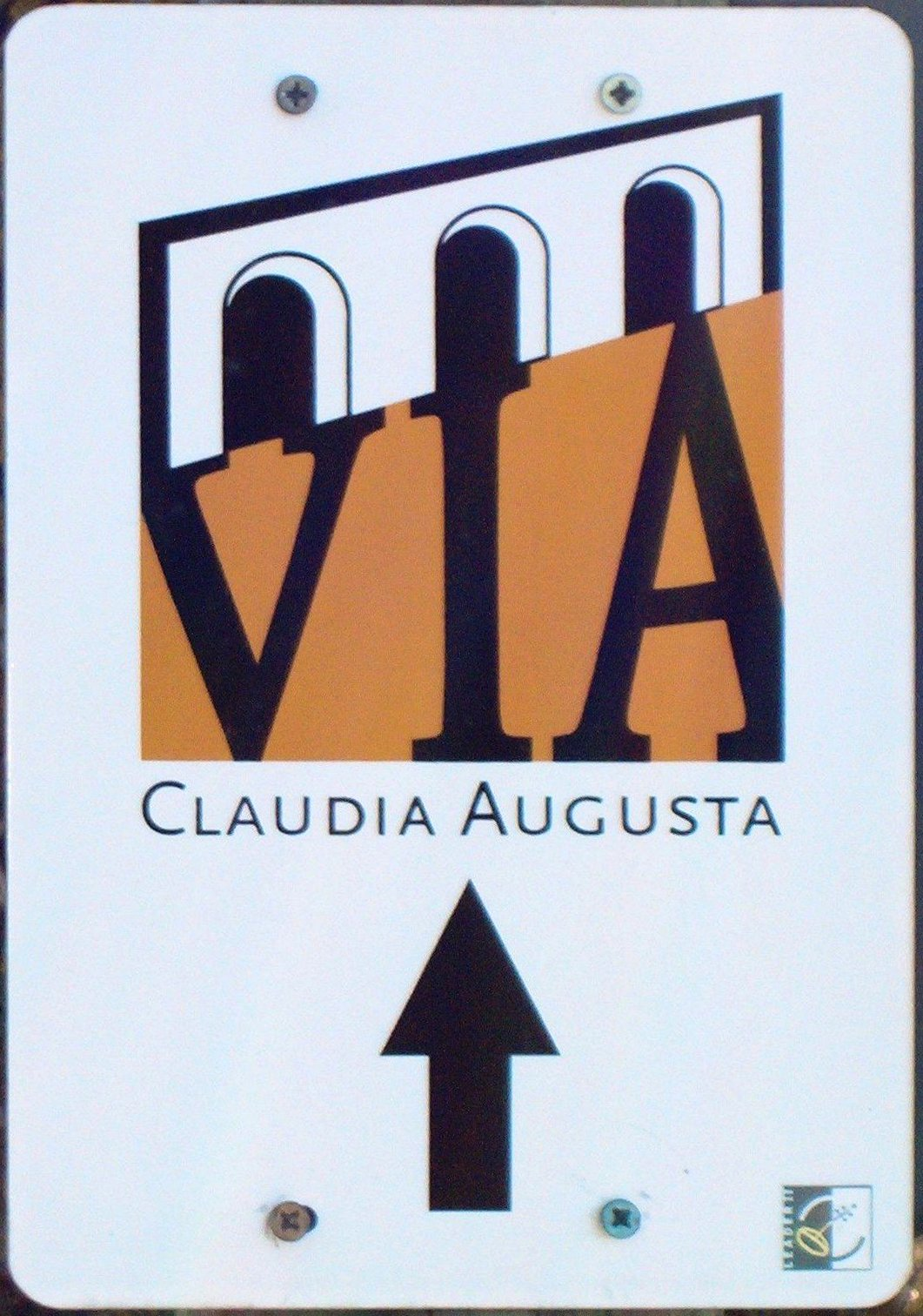 Sign showing the new Via Claudia Augusta near Unterdiessen, Bavaria, Germany